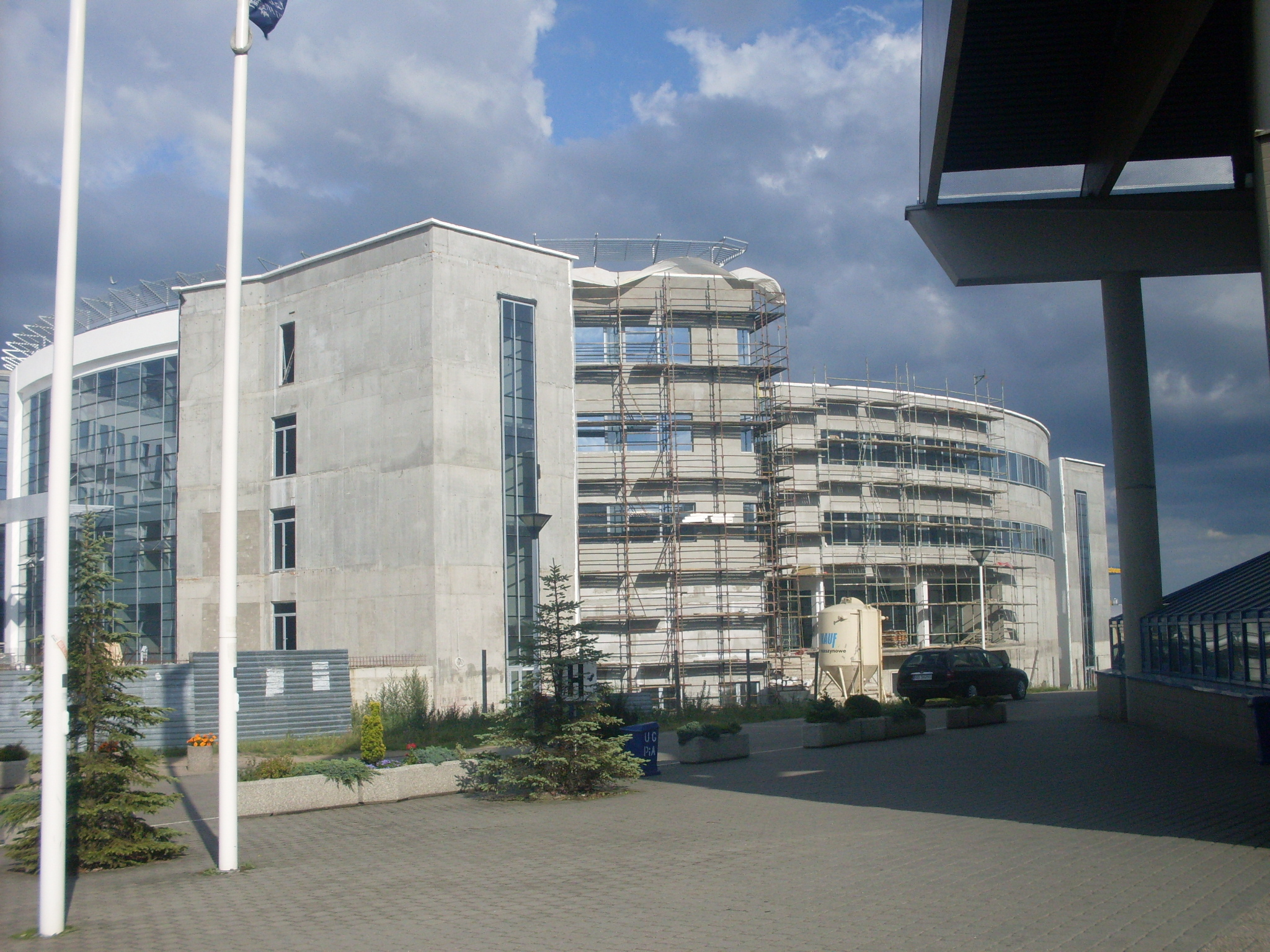 Construction new abode of Faculty of Social Sciences Gdańsk University at Oliwa Campus.